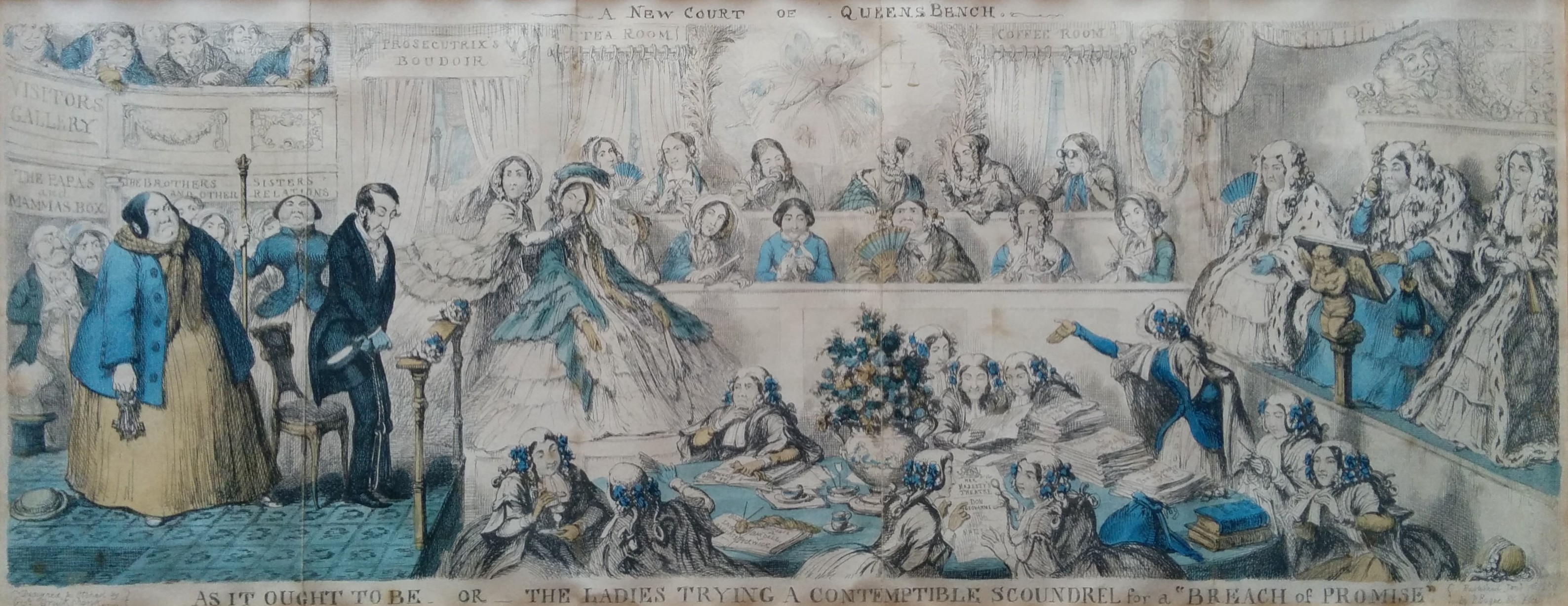 A satire on the women's rights movement set in the Court of the King's Bench, for a detailed description. Designed and etched by George Cruikshank, Hythe 1849. Published 1 January 1850 by David Bogue, 86 Fleet Street. Hand-coloured.